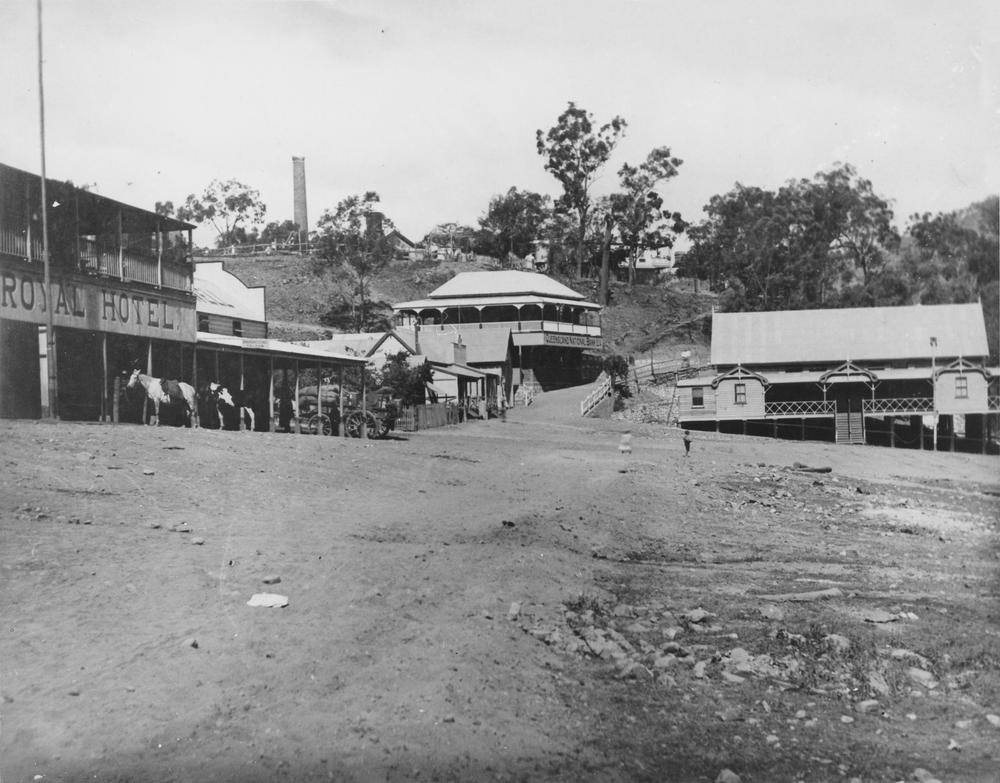 View of Irvinebank, Queensland, ca.1906. Irvinebank showing Wades Royal Hotel, National Bank, School of Arts and other buildings. Horses are tied outside the hotel and a loaded wagon is visible on a corner. On a hill behind these structures, buildings and a smoking smelter chimney are visible.